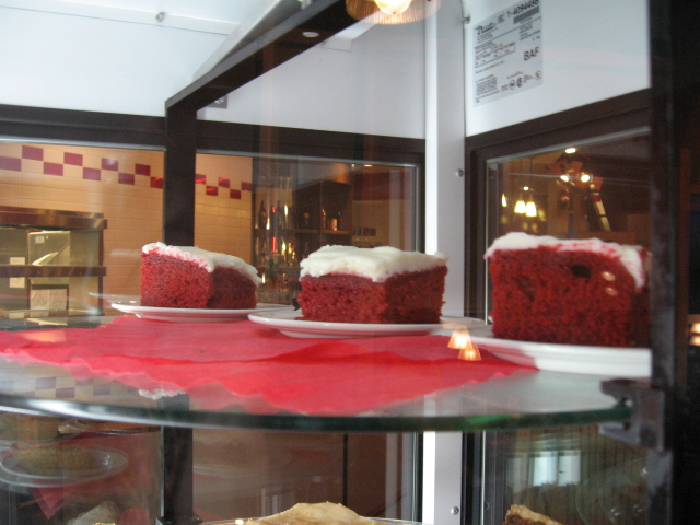 Red velvet cake at Sal's on the Bridge